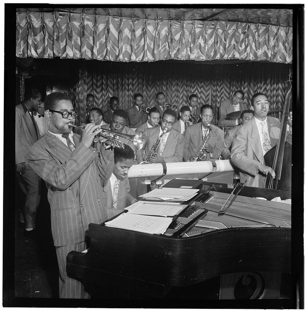 Portrait of Dizzy Gillespie, John Lewis, Cecil Payne, Miles Davis, and Ray Brown, Downbeat, New York, N.Y.